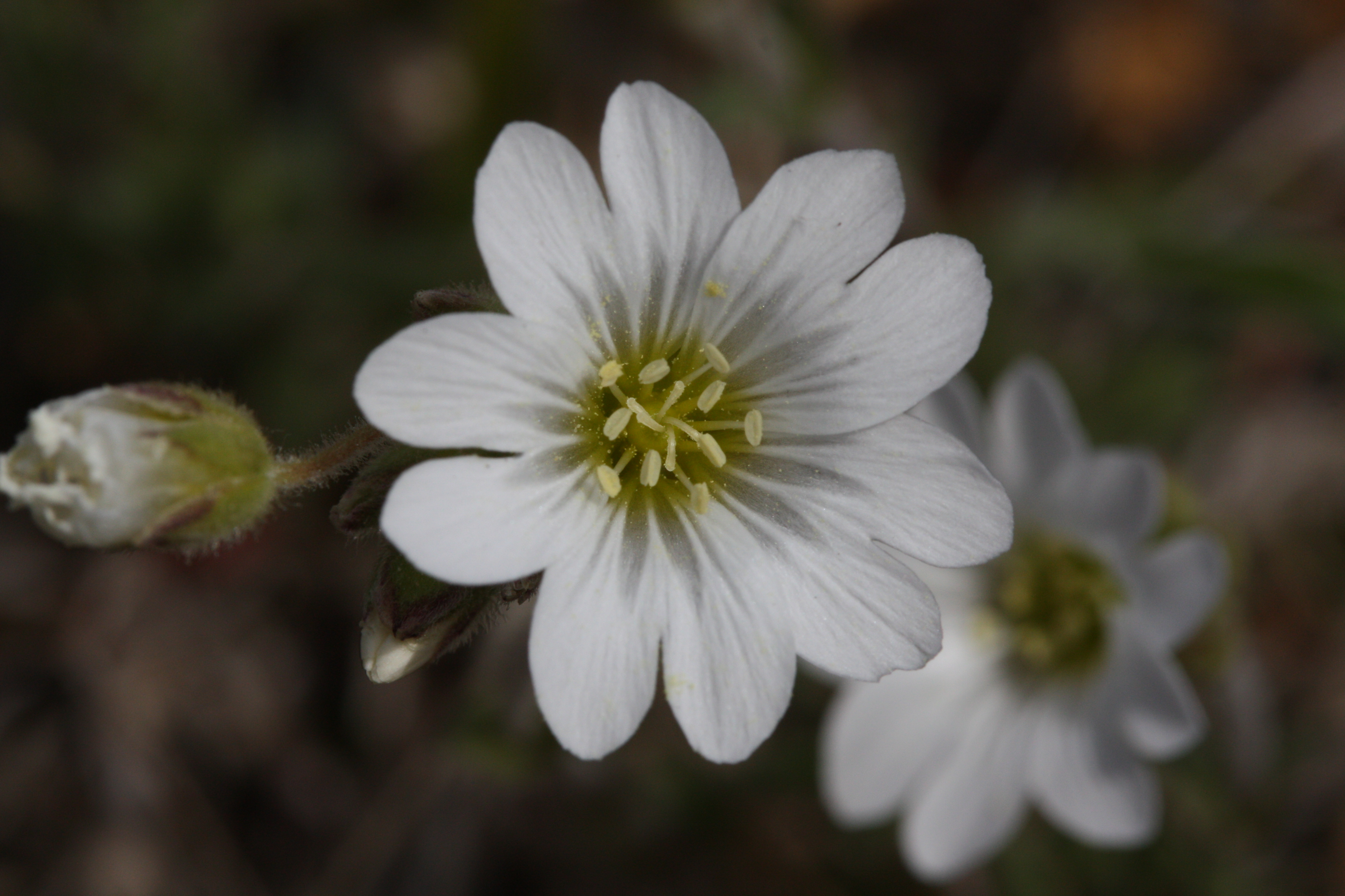 Field Chickweed